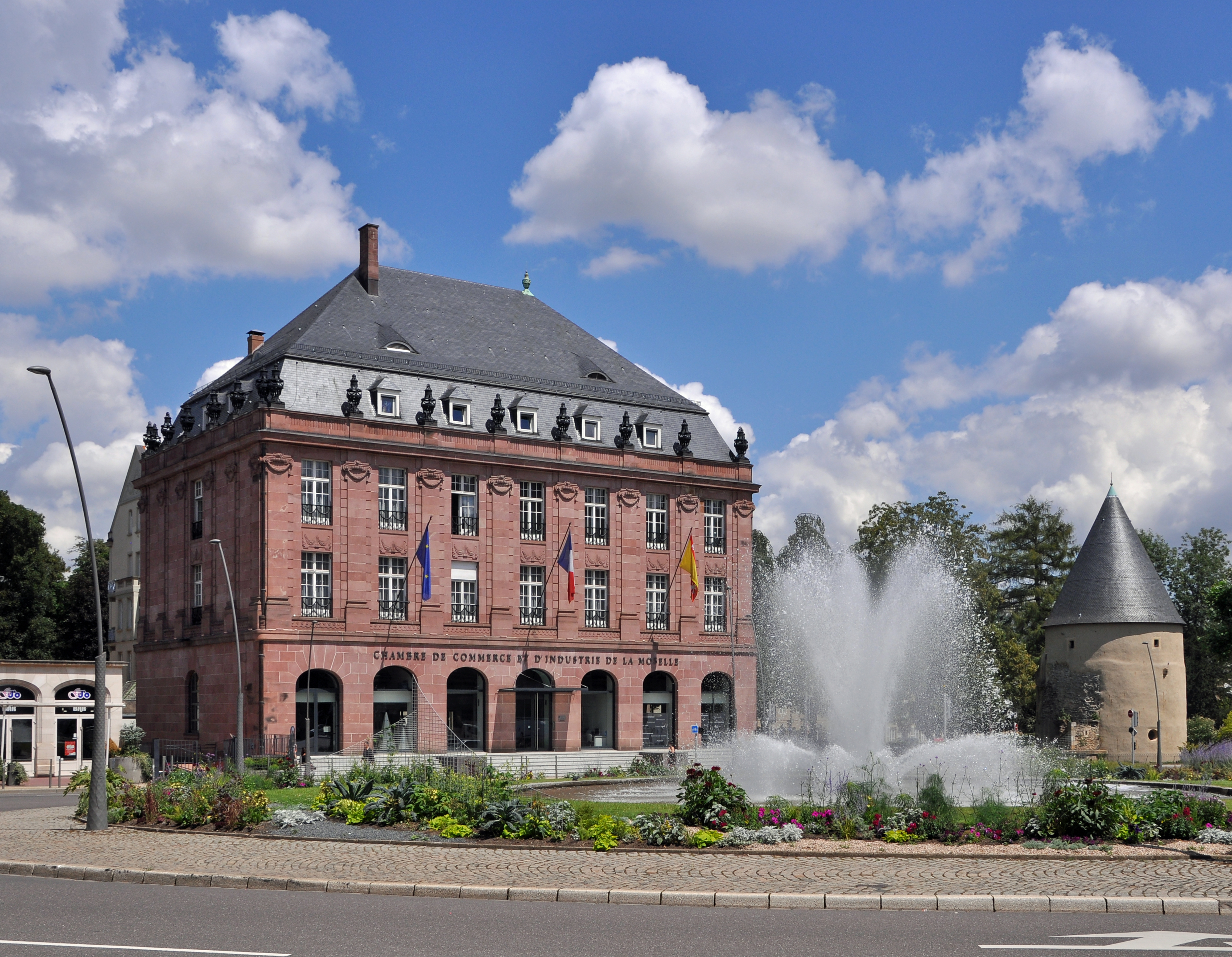 Metz (France): head office of the Chambre de Commerce et d'Industrie de la Moselle; on the right: the Tour Camoufle